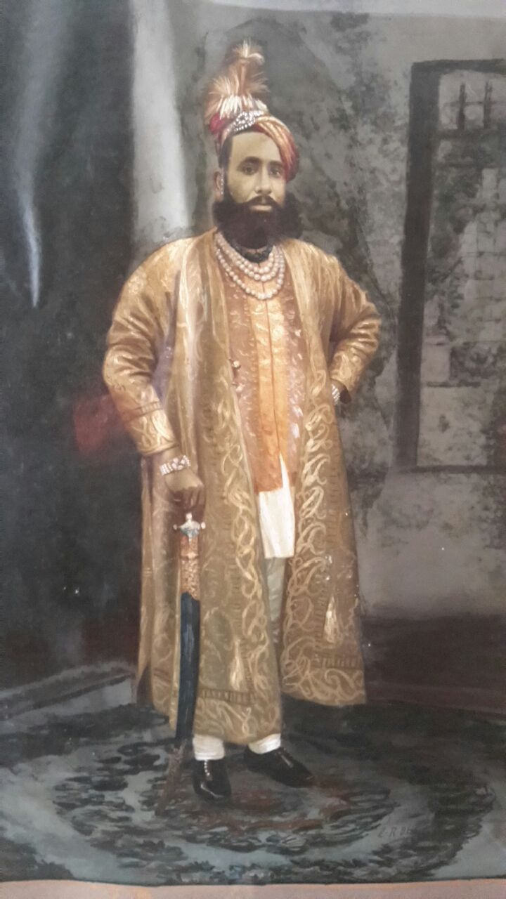 Rao Bahadur Rao Shree Sardar Singh of Bakhatgarh 22nd king of Bakhatgarh State